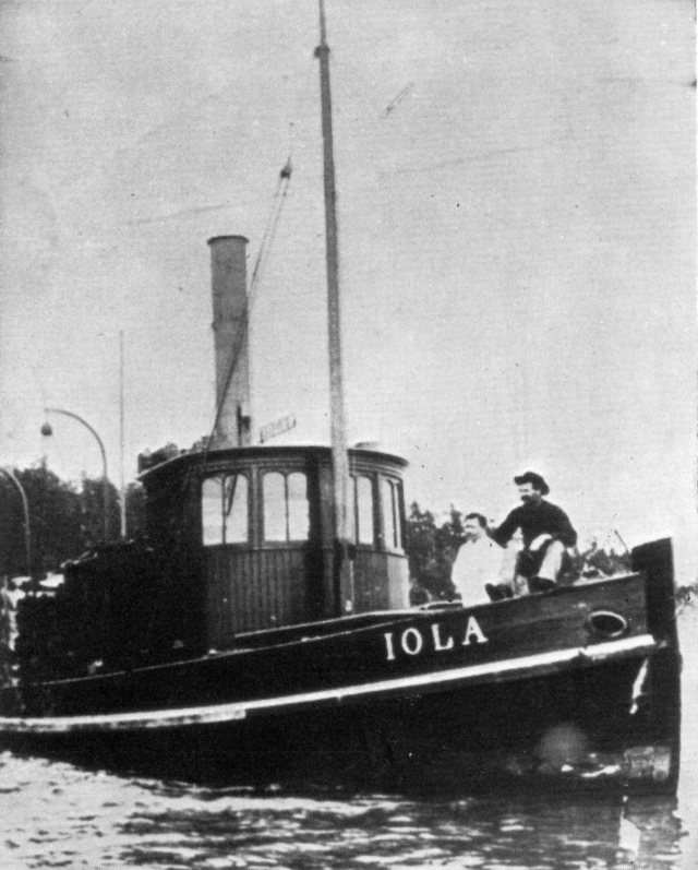 Steamboat Iola, somewhere on Puget Sound.